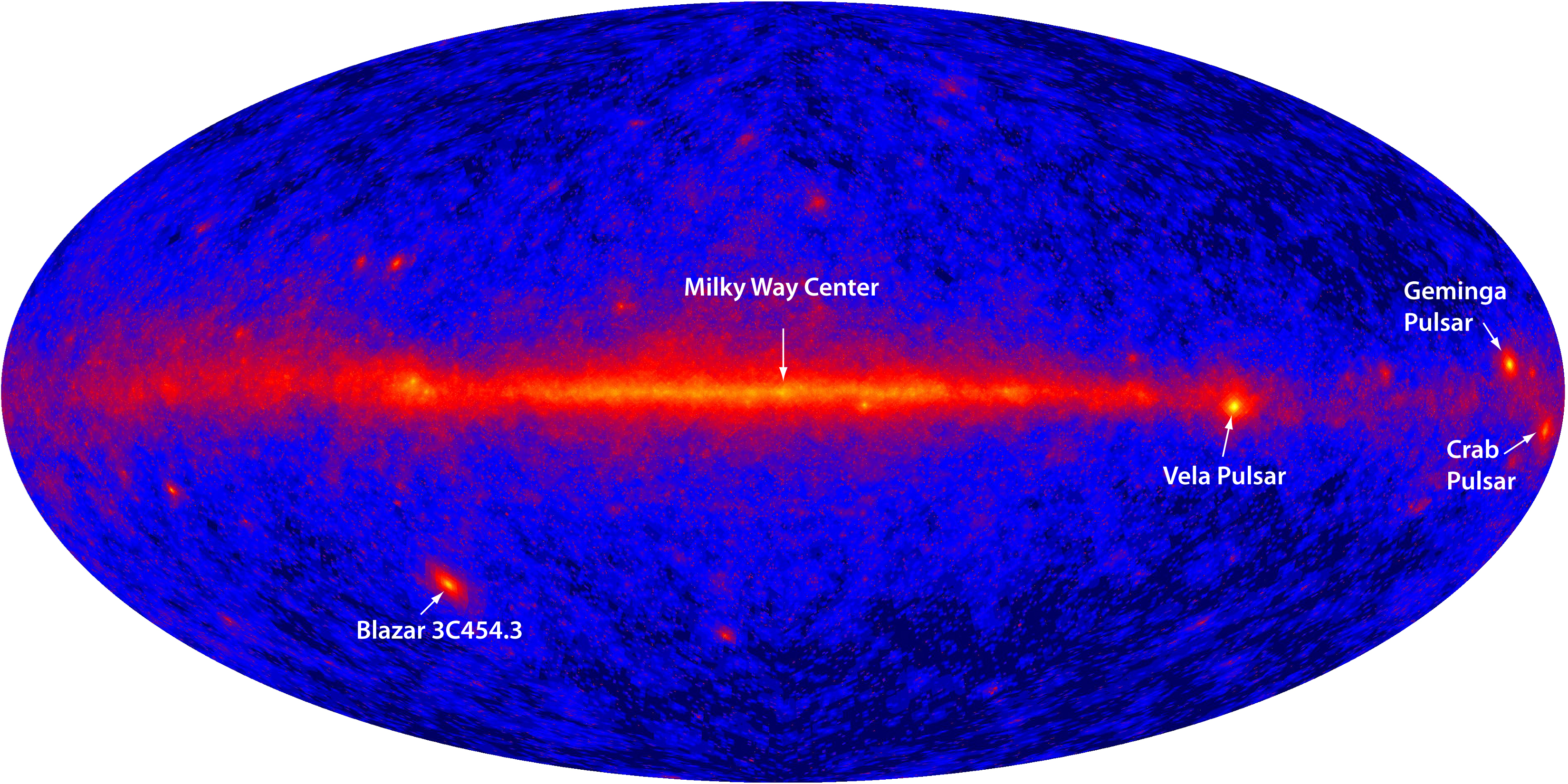 This all-sky view from GLAST reveals bright gamma-ray emission in the plane of the Milky Way (center), bright pulsars and super-massive black holes